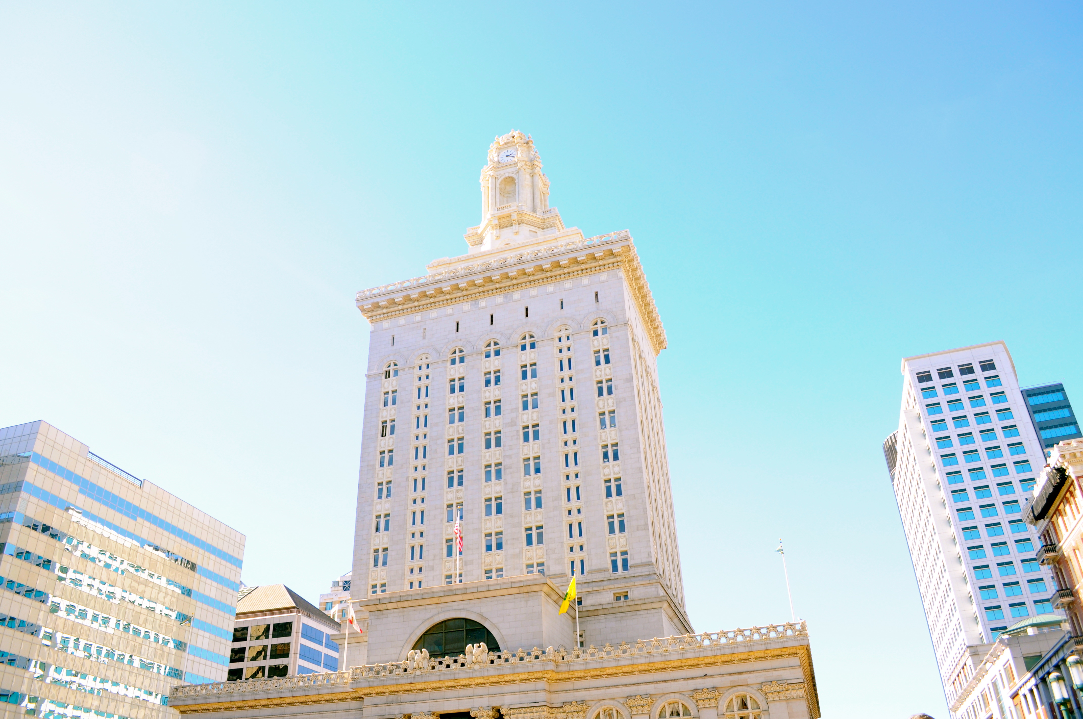 Oakland City Hall — downtown Oakland, California. On 10/14/2012